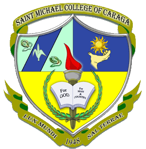 The official emblem of St. Michael College of Caraga.